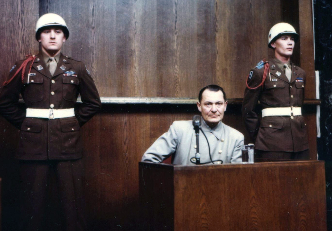 German Reichsmarschall, Commander of the Luftwaffe Hermann Goering (1893 - 1946) during cross examination at his trial for war crimes in Room 600 at the Palace of Justice during the International Military Tribunal (IMT), Nuremberg, Germany, 1946.